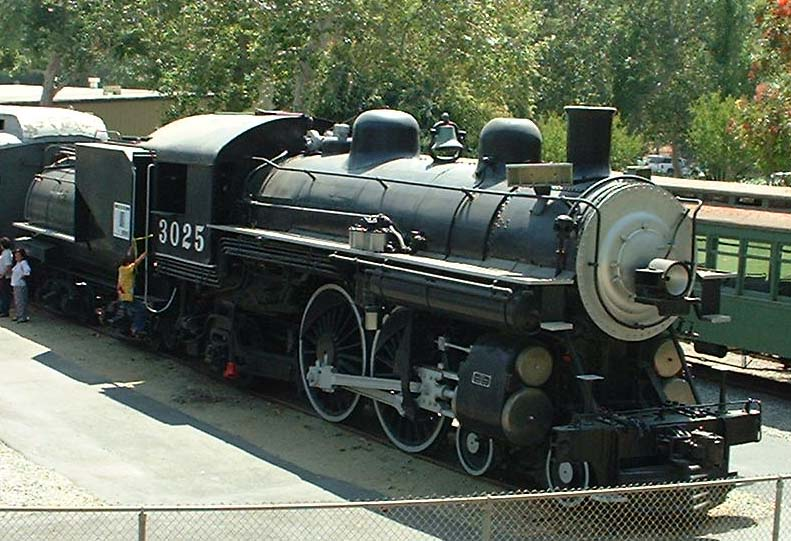 Class A-3 #3025 of 1904 built by Schenectady on display at Travel Town in Los Angeles